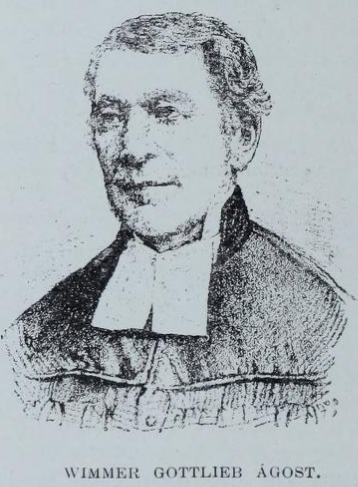 Portrait of Wimmer Gottlieb Ágost